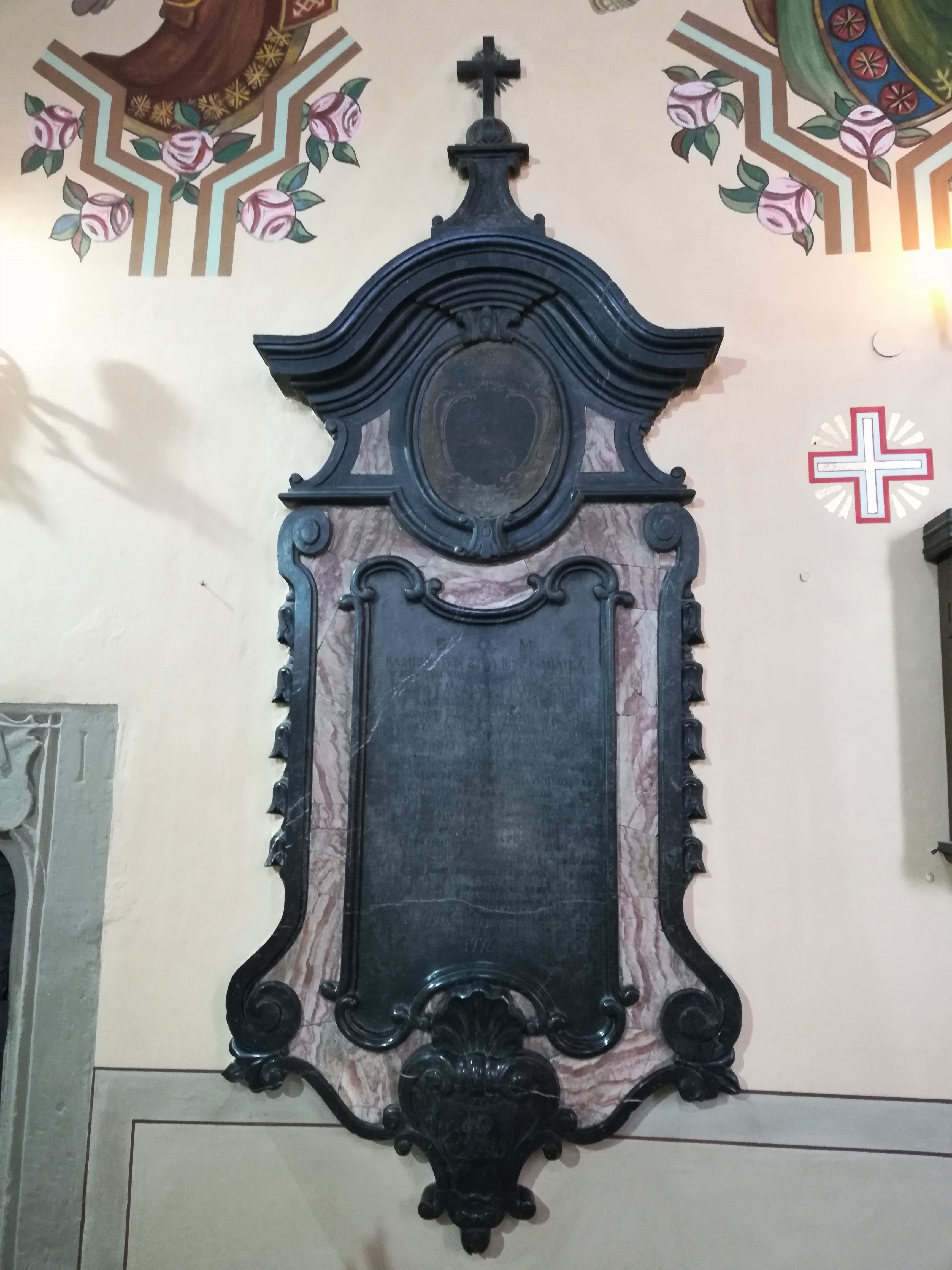 Church of St. Stanisława in Chlewiska - an epitaph of Józef and Marianna Potkański from 1776.